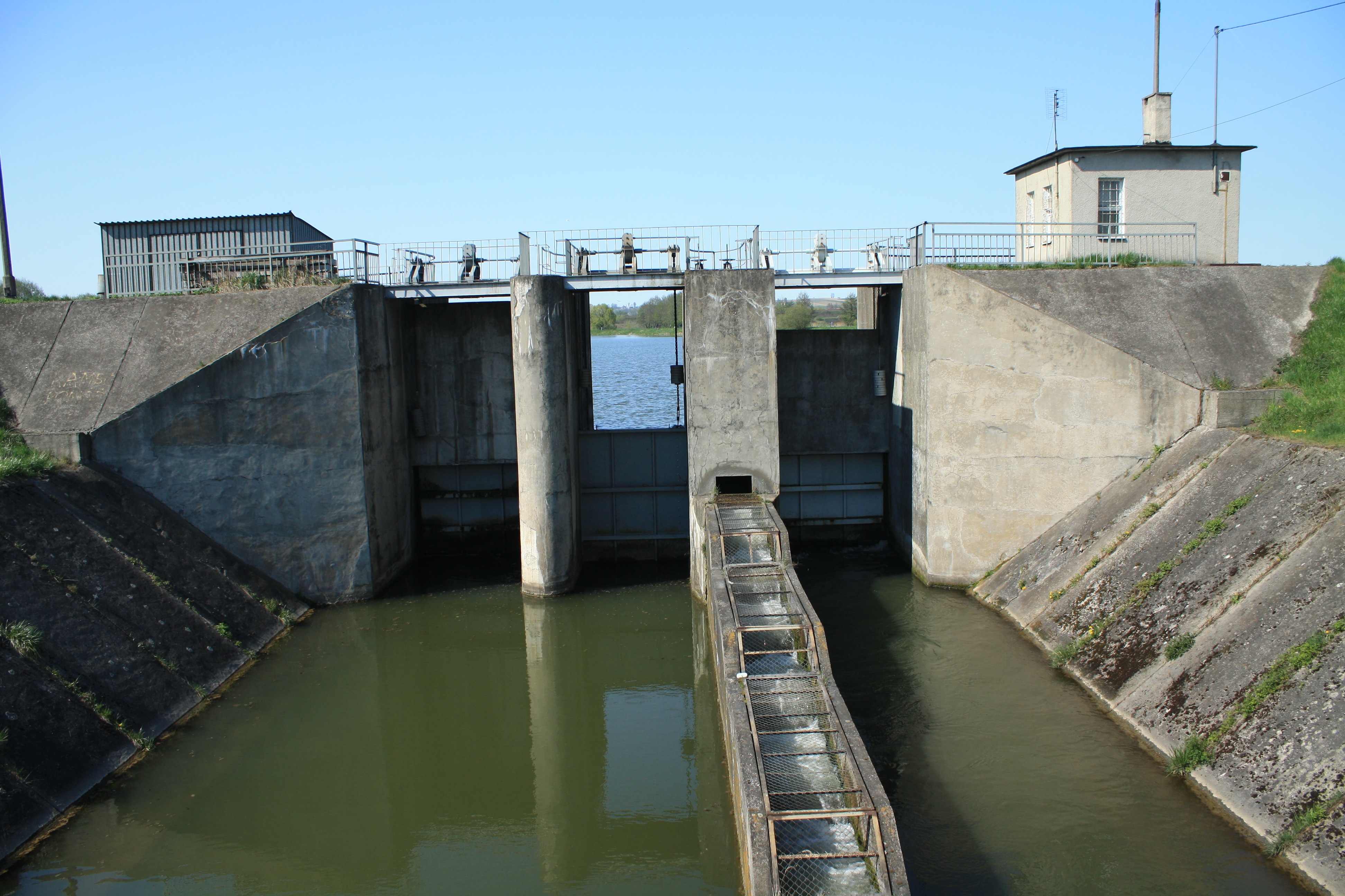 Dłubnia river in Kraków